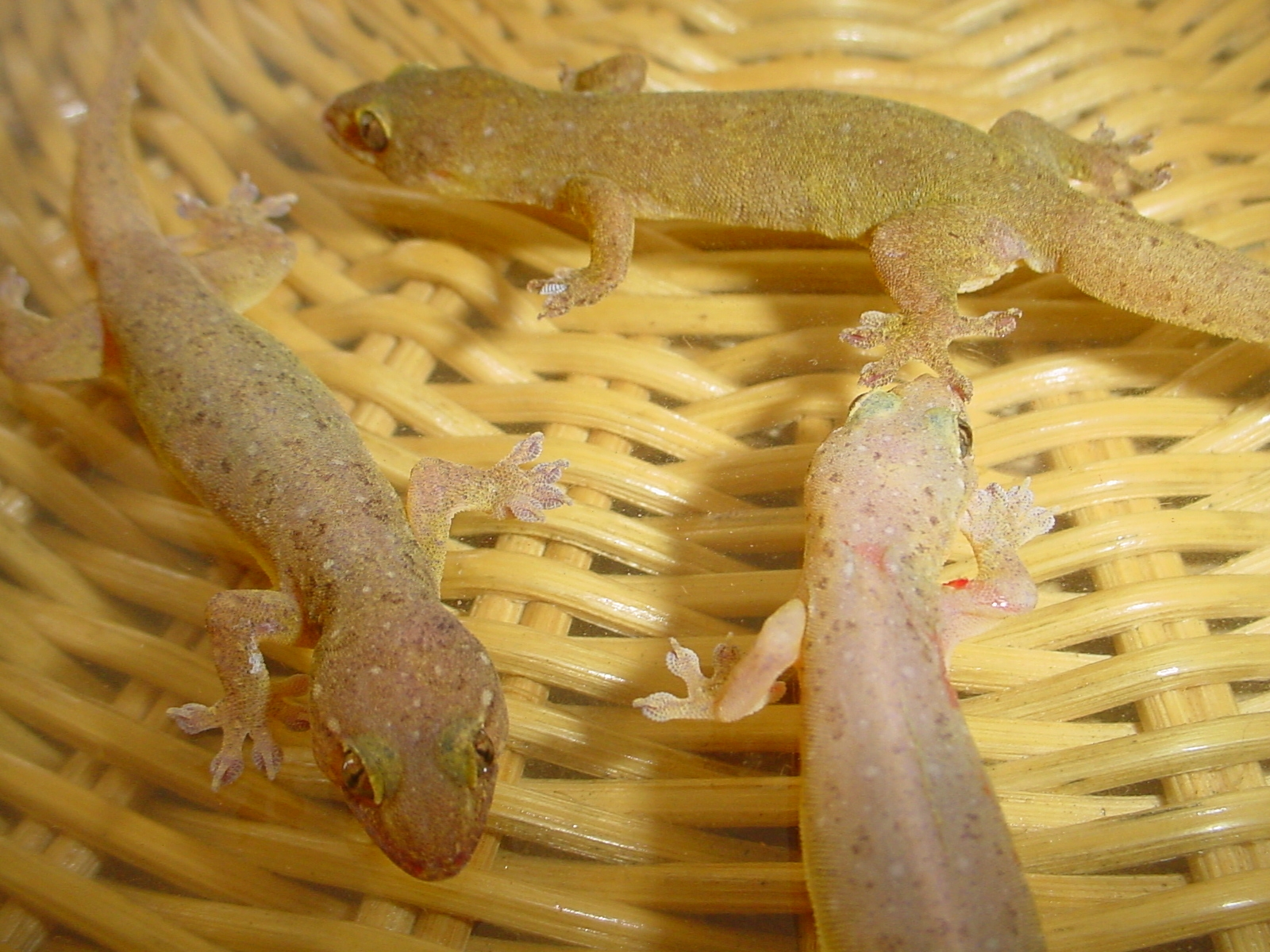 Three House Gekkoes (Gehyra mutilata), St Paul, Reunion Island